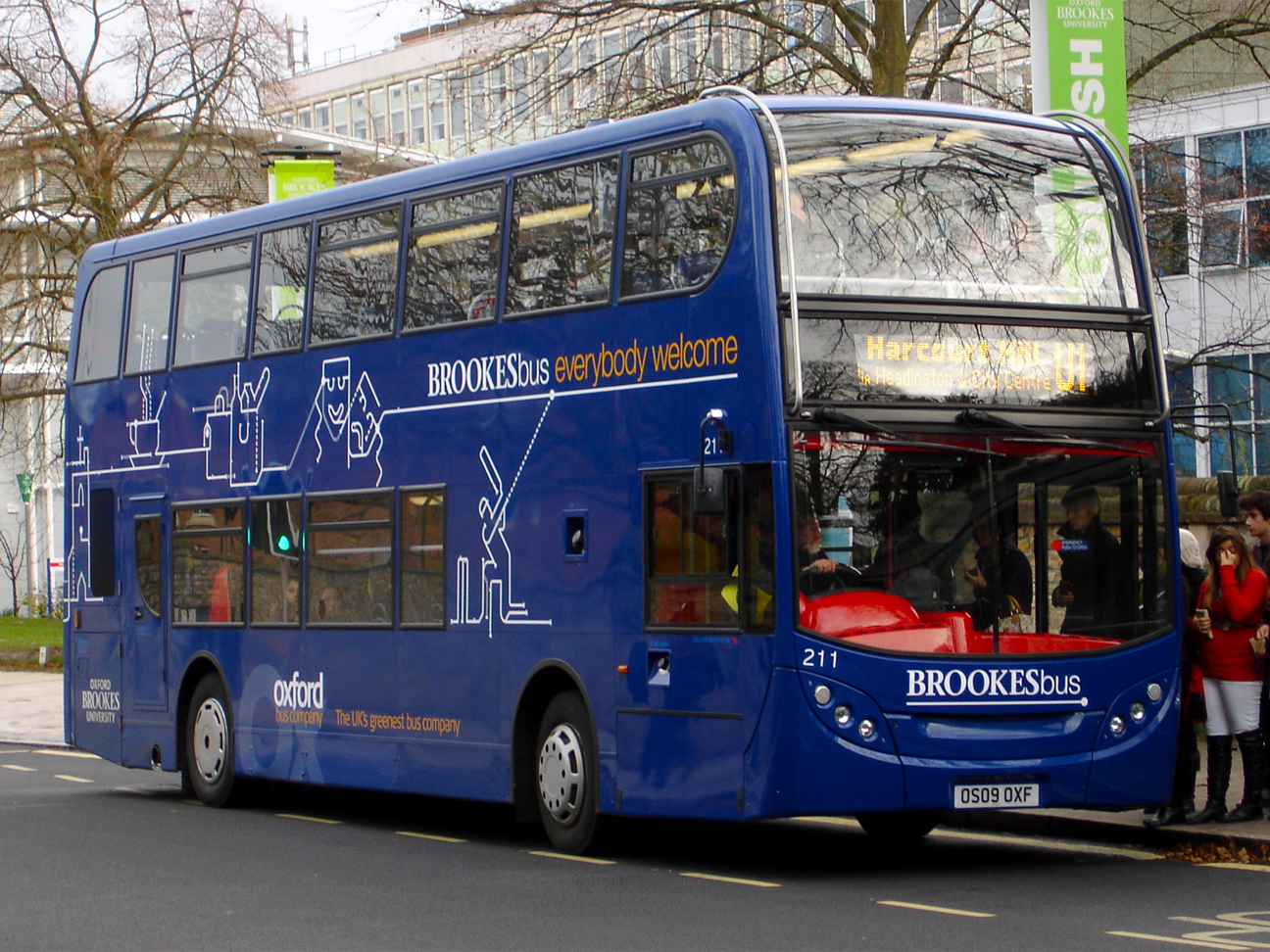 An Oxford Bus Company Scania N230UD/Alexander Dennis Enviro400 bus on BrookesBus route U1 outside Oxford Brookes University in Headington, Oxford. The bus is fleet number 211, registration mark OS09 OXF, and is BrookesBus livery to operate under contract for Brookes University.